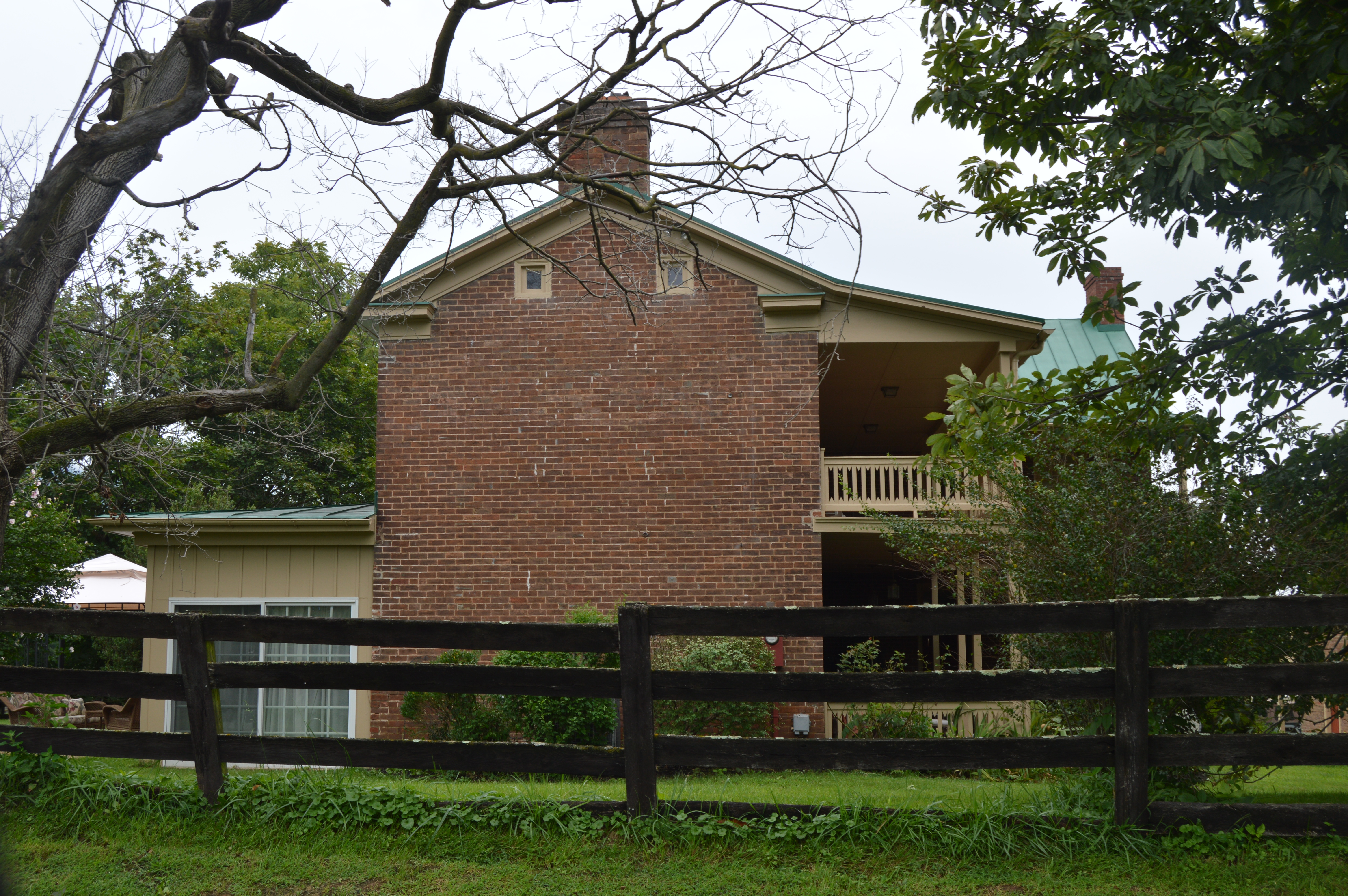 Southern end of the John Beaver House, located on Longs Road southwest of Salem in Page County, Virginia, United States. Built in 1826, it is listed on the National Register of Historic Places.